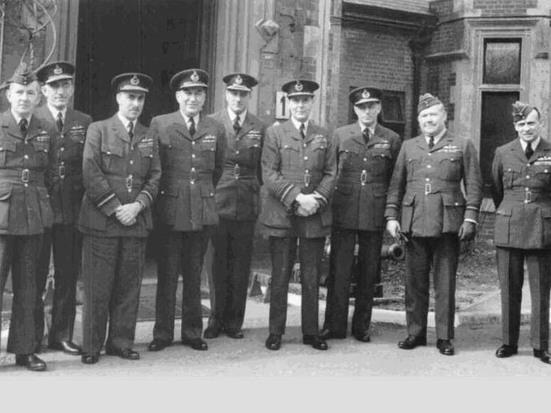 Air officers of the RAF's Coastal Command at Northwood, England during World War II. Shown left to right are: Air Vice-Marshal Brian Baker Air Commodore William Primrose Air Vice-Marshal James Robb Air Vice-Marshal Albert Durston Air Commodore Sturley Simpson Air Chief Marshal Sir Philip Joubert de la Ferté Air Vice-Marshal Geoffrey Bromet Air Commodore Ian Lloyd Air Commodore Henry Smart